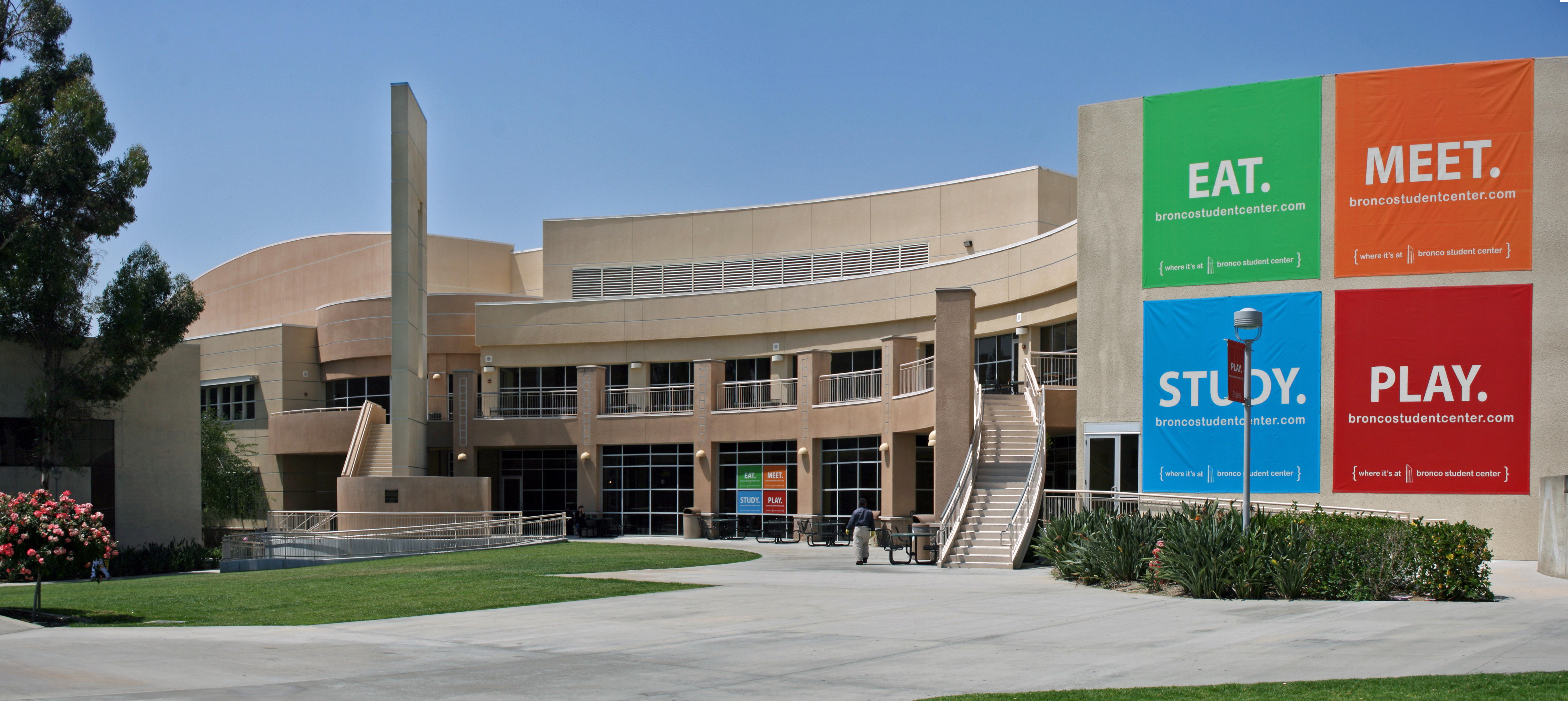 The South entrance of the Bronco Student Center at California State Polytechnic University, Pomona. The large banner is a theme of the student center to get students to use the many resources available in the building.